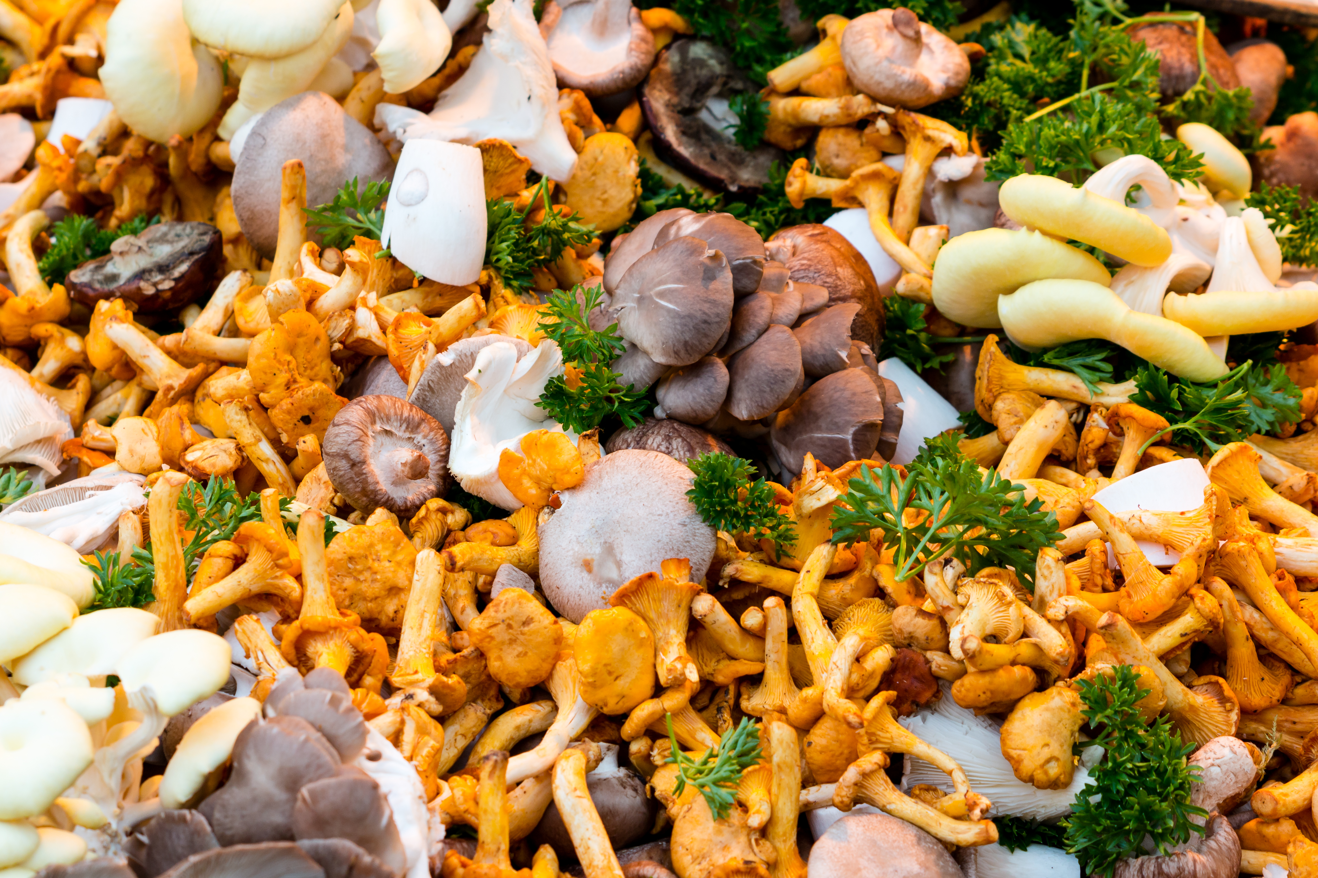 Market in Münster, North Rhine-Westphalia, Germany